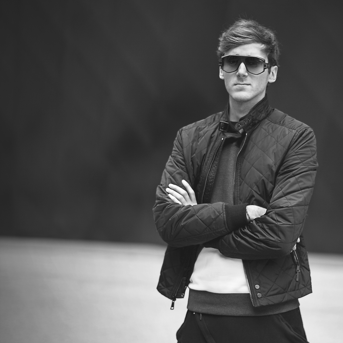 Edmond Huszar, a Canadian DJ, producer and graphic designer better known as Overwerk.